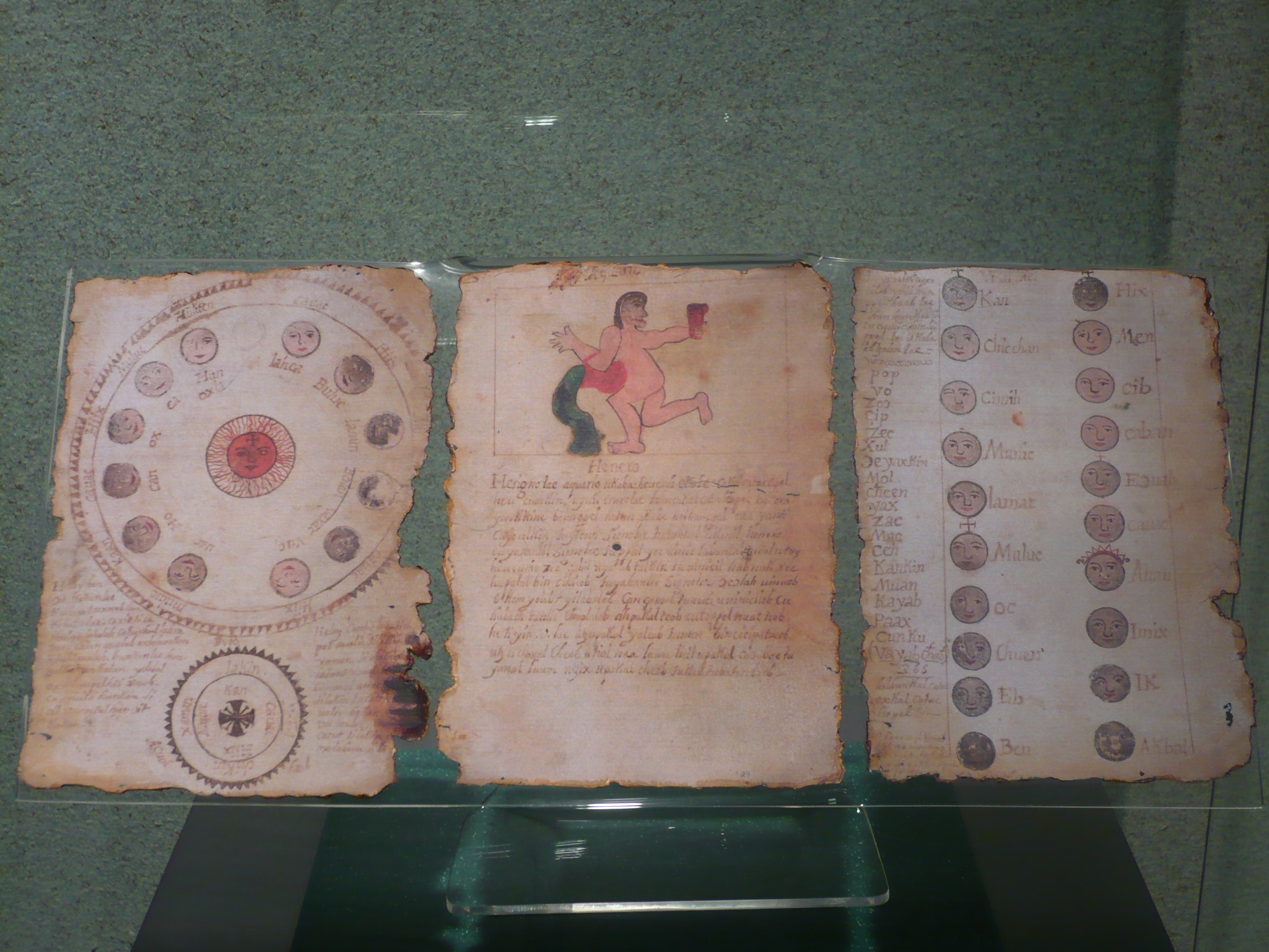 Copy of the Book of Chilam Balam of Ixil displayed at the Museo Nacional de Antropologia in Mexico-city